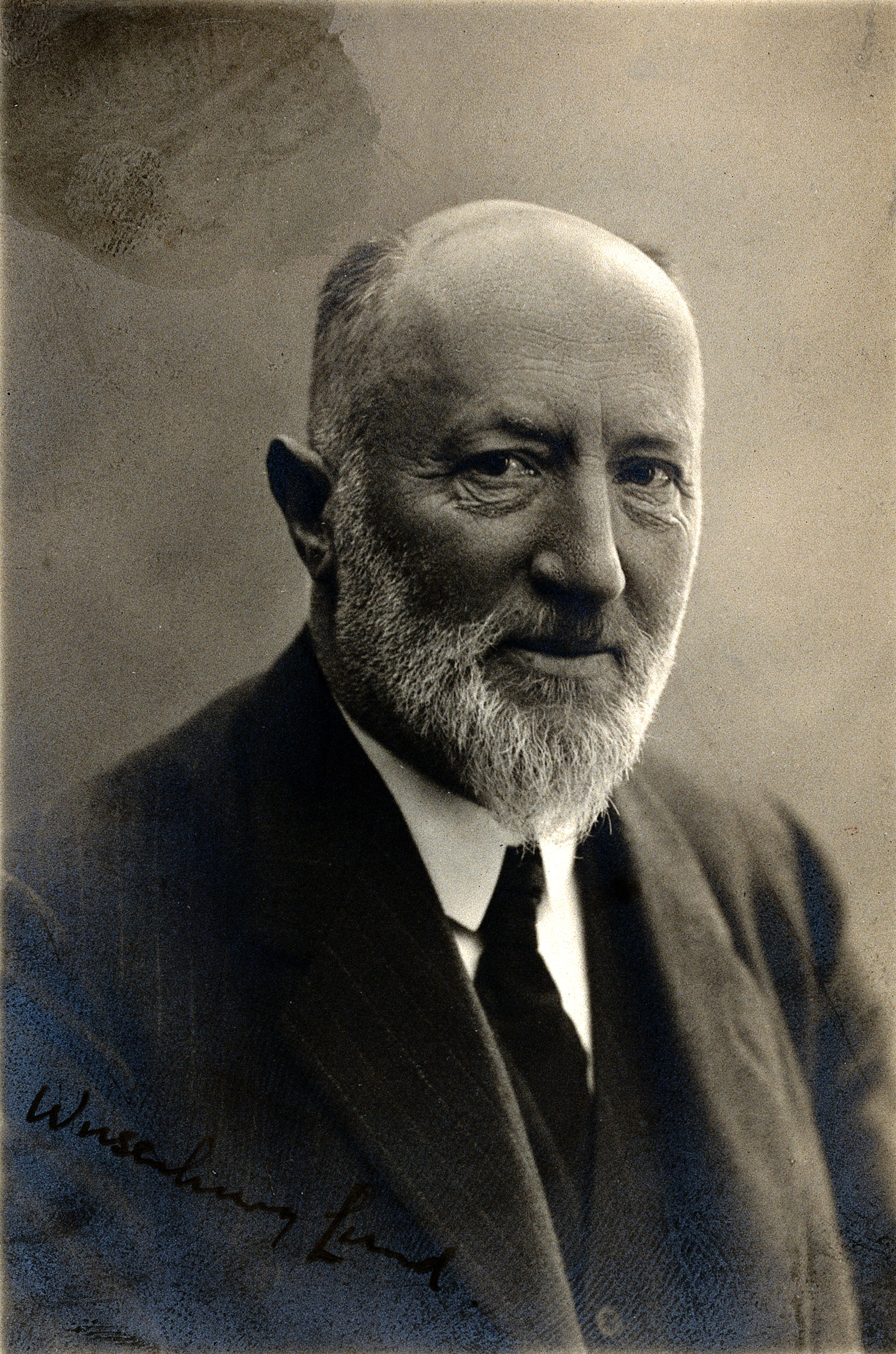 "Wessenburg Lund" (?). Photograph. Iconographic Collections Keywords: portrait photographs